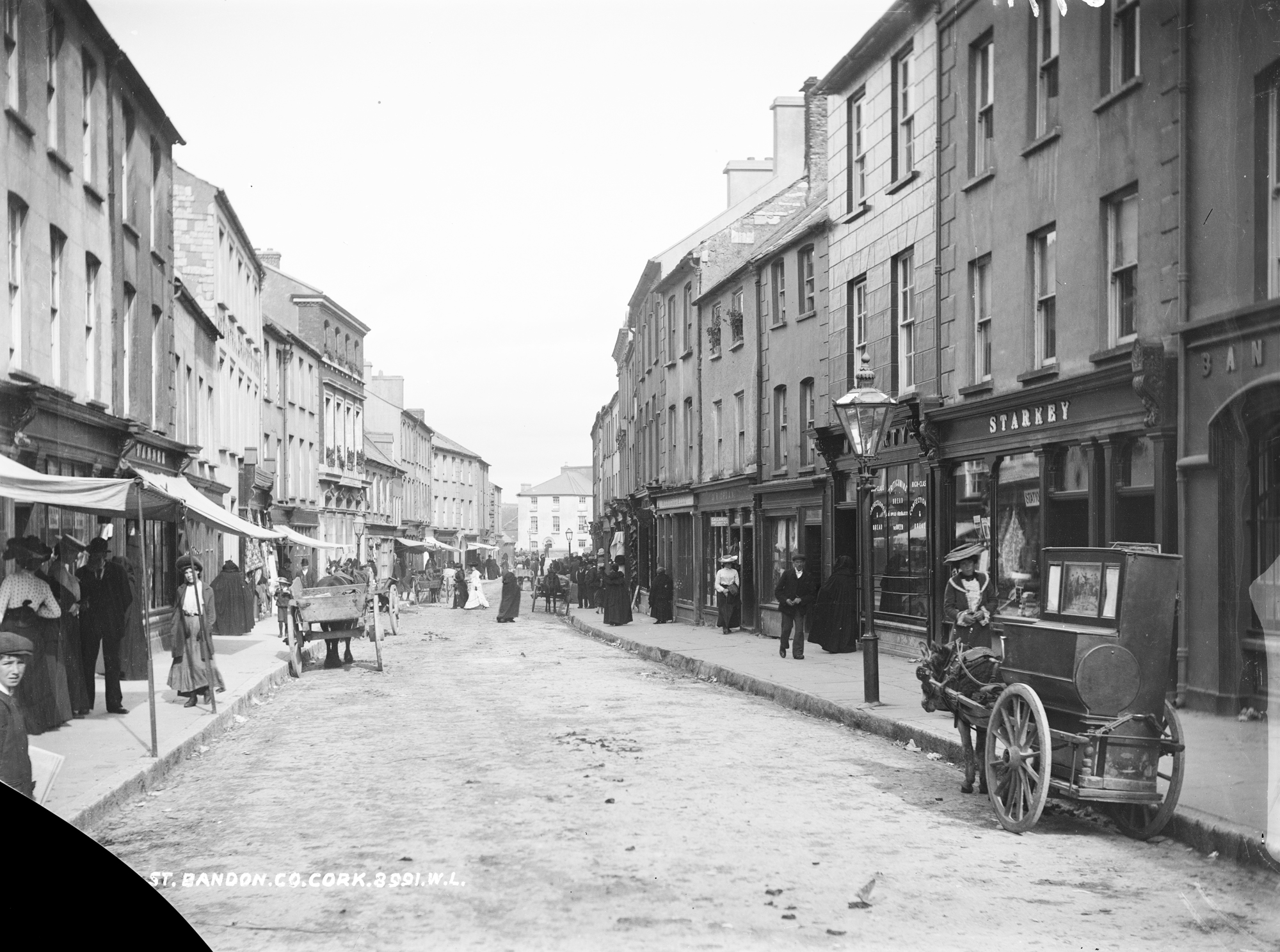 At first glance, this looked like many of our other Main Street photos, but what did Robert French (almost certainly) capture for us but a Barrel Piano on Main Street, Bandon in Co. Cork! At least I think that's what it is in the bottom right corner? Oh, and there're also a few women in those amazing hooded cloaks! And how tasty does this bread sound - "Triticumina" Bread as supplied to Her Majesty the Queen... Photographer: Almost certainly Robert French of Lawrence Photographic Studios , Dublin Date: Circa 1900? NLI Ref.: L_ROY_08991